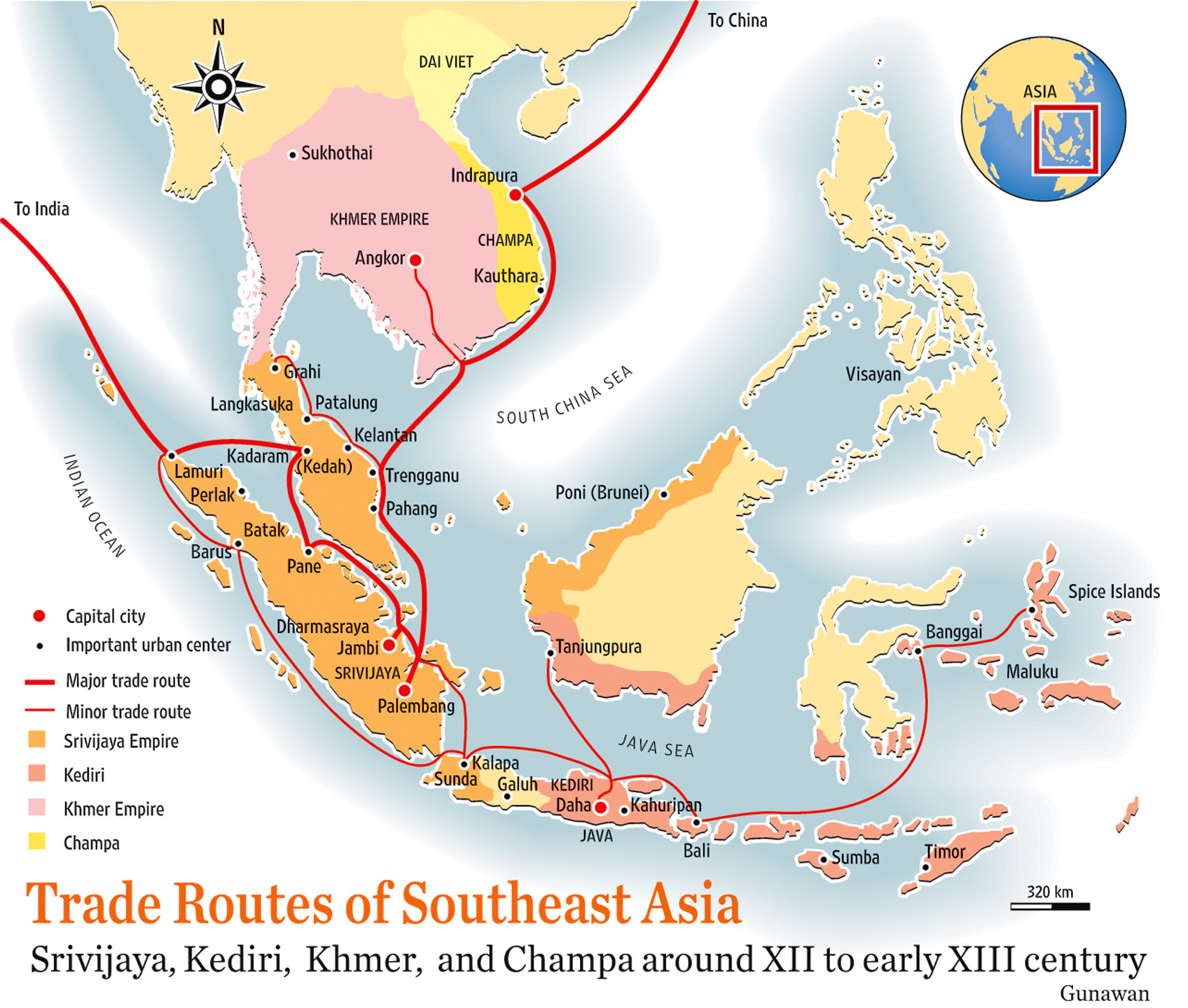 Trade route map of Southeast Asia around 12th to early 13th century AD